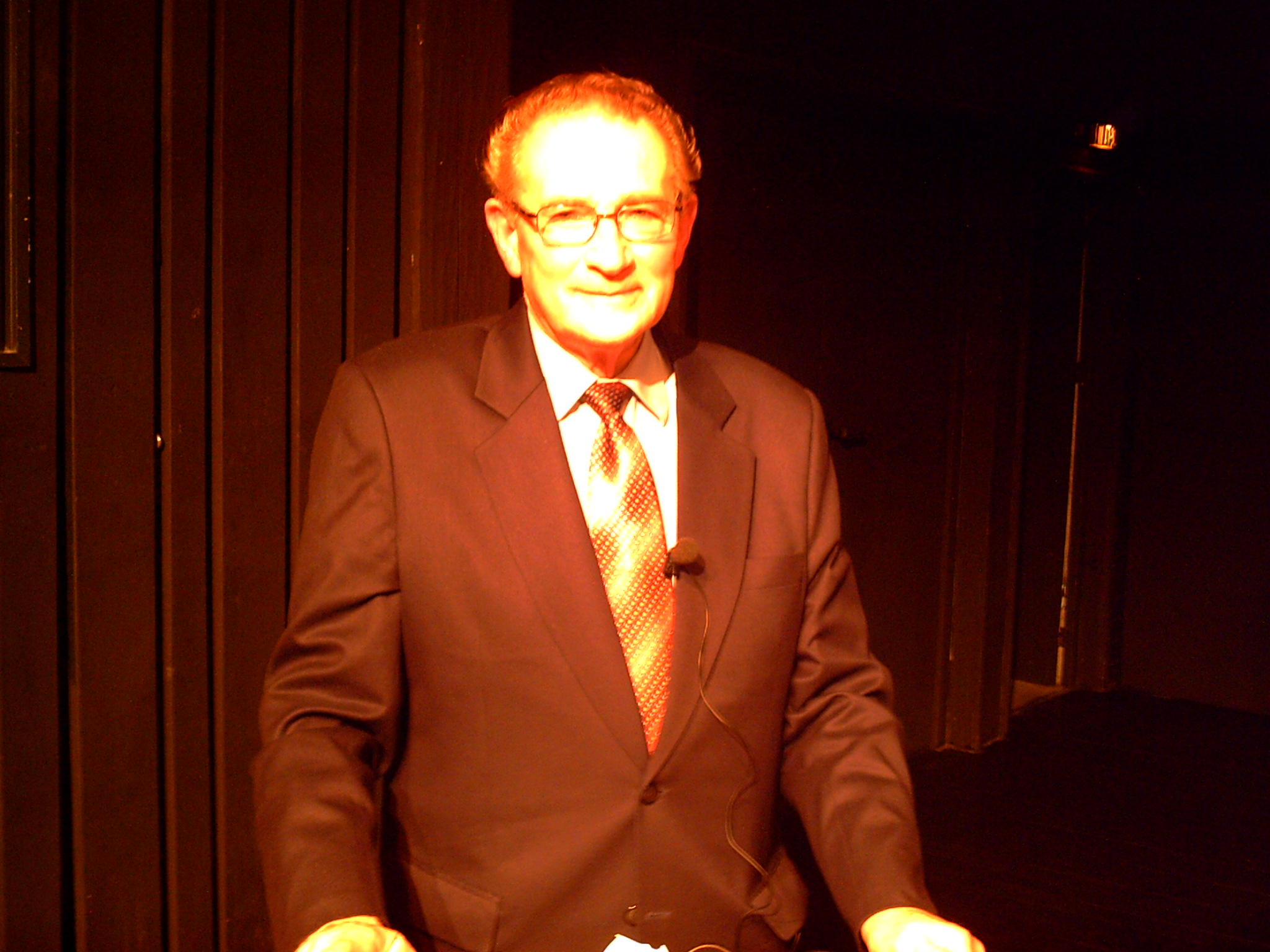 Percy Schmeiser, Winner of the Alternative Nobel Prize 2007, talking in Stuttgart. Not a good picture, but the only free picture available at the moment. Feel free to improve it or replace it with a better one.